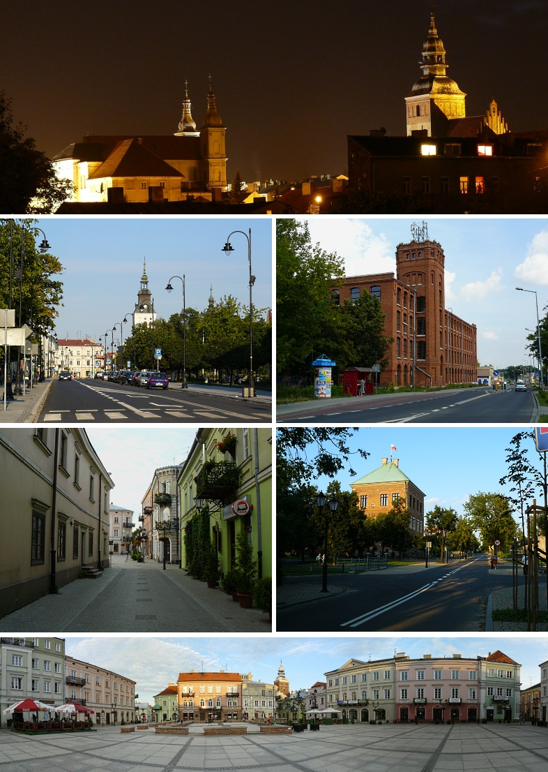 Collage of views of Piotrkow Trybunalski (PL)